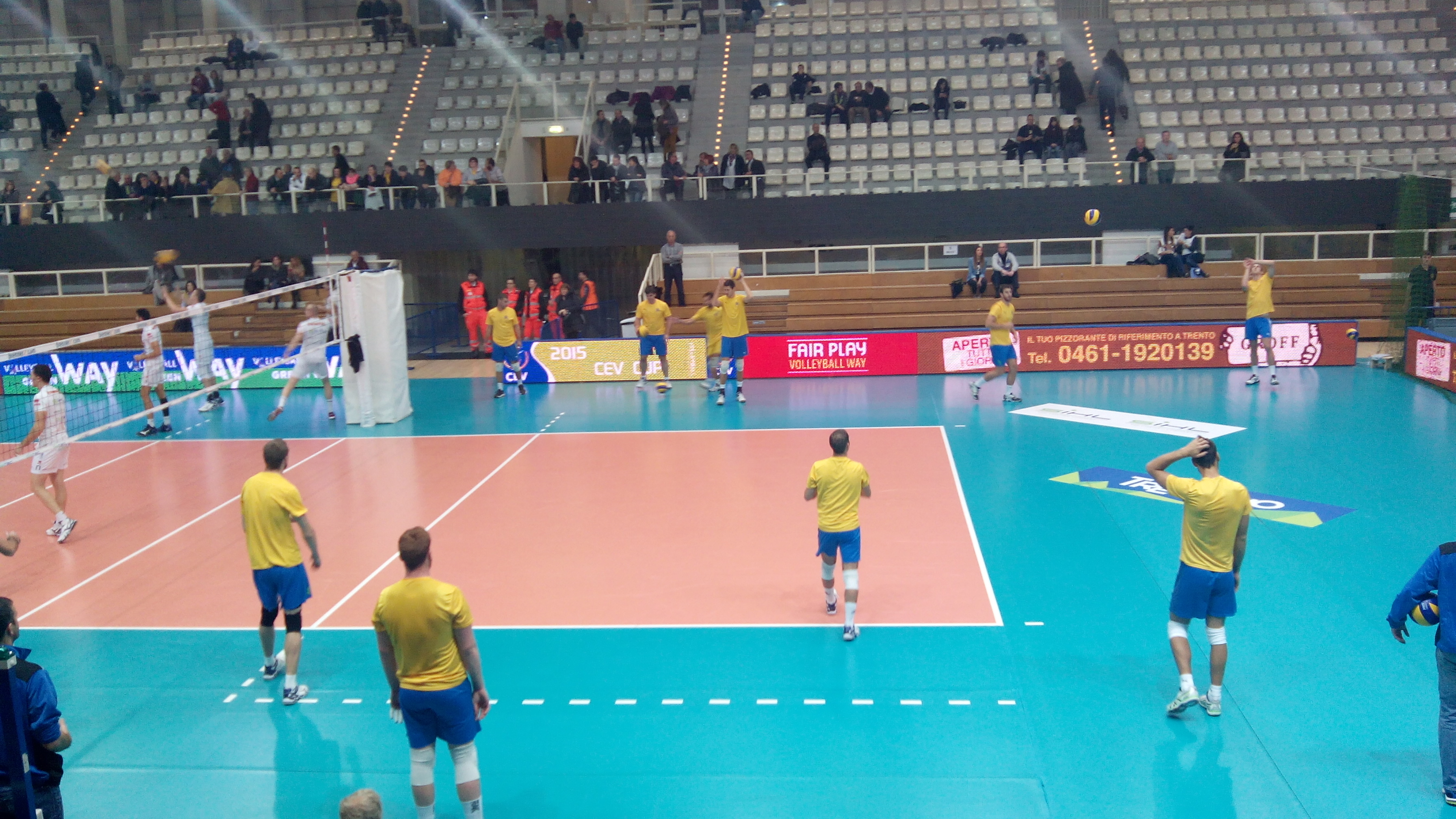 Maccabi Tel Aviv Volleyball club during the warm-up pre-match - December 4th 2014 - PalaTrento (Trento - Italy)